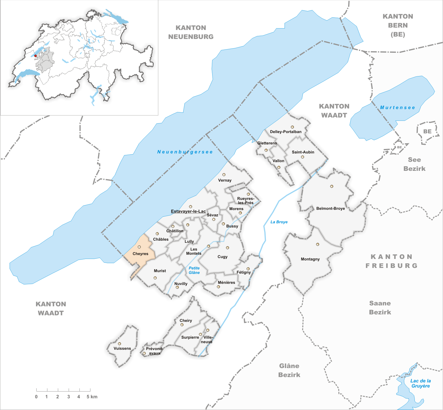 Municipality Cheyres